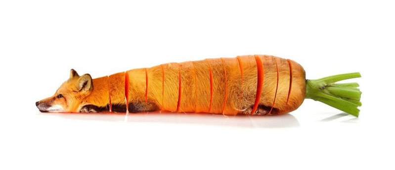 "Carrox" Carrot/Fox